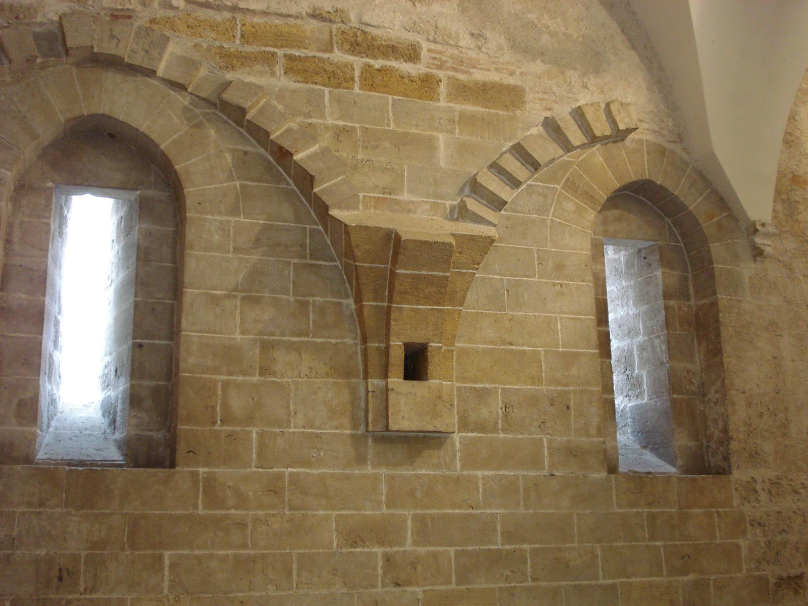 May be traces of cross vaults in refectory